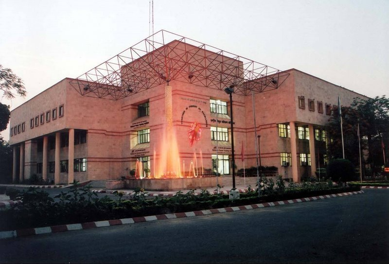 NPTI ,Faridabad